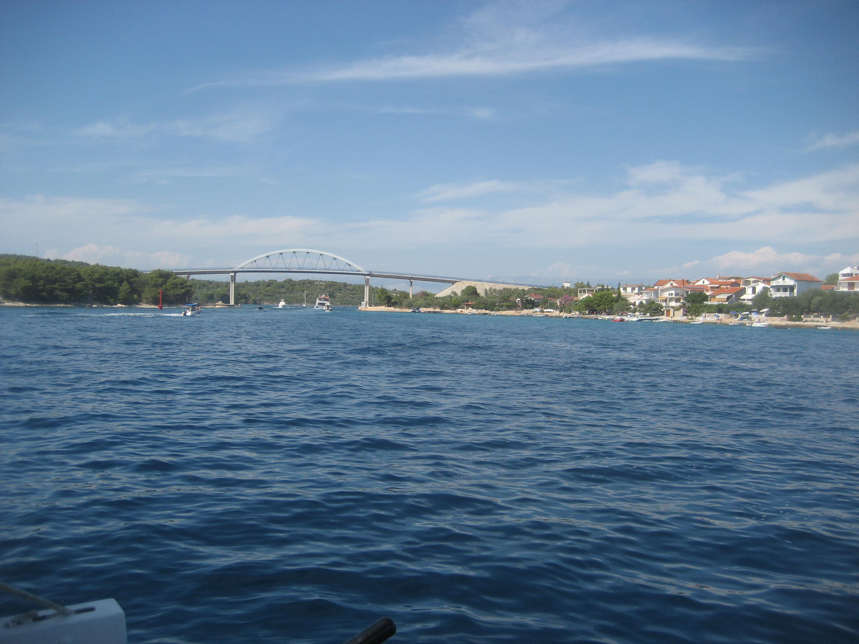 Pasman-Ugljan Brige